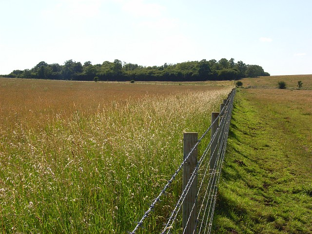 Normanton Down The National Trust's boundary fence with Normanton Gorse in the background.